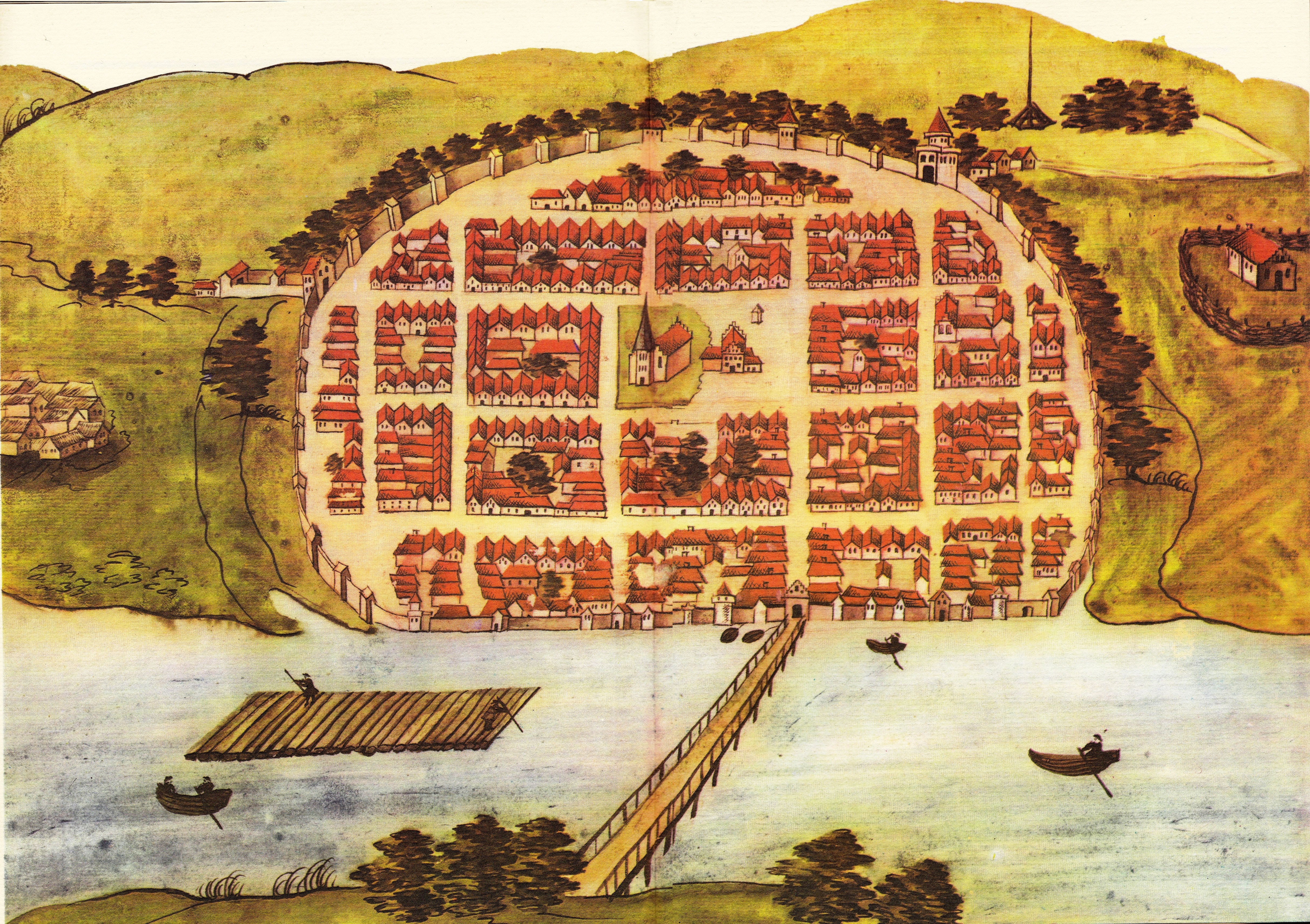 Cityview of Greifenhagen(Gryfino) from the "Stralsunder Bilderhandschrift"